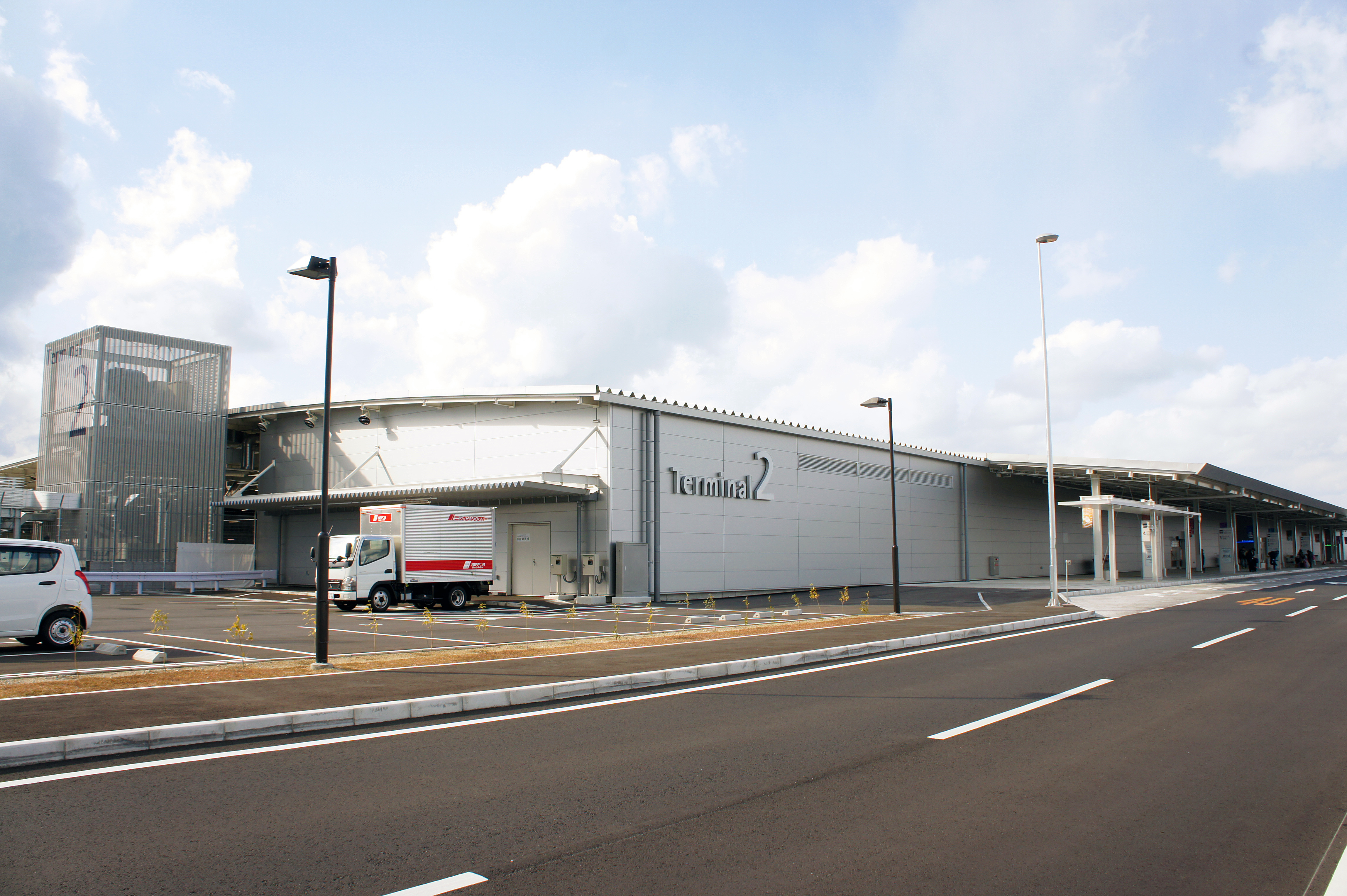 Kansai International Airport Terminal2, Senshukukonaka Tajiri-town Sennan-district Osaka Japan.